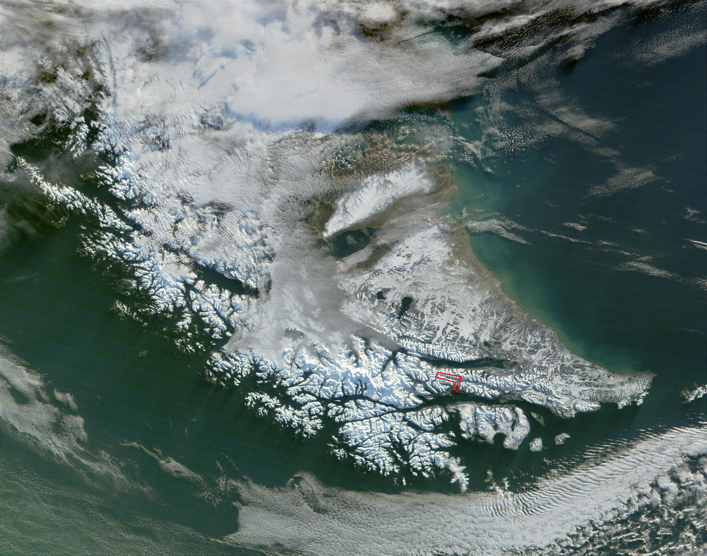 Satellite view of Tierra del Fuego. Valle Carbajal marked into a red line.